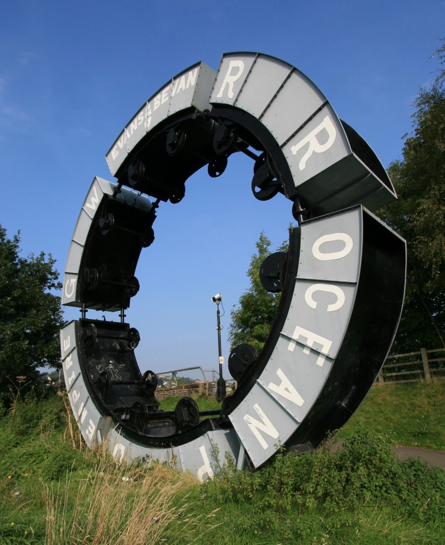 Wheel o Drams Sculpture at Maesycwmmer near Caerphilly. Unveiled in 2000 to commemorate area's industrial history. Sculptor was Andy Hazell.